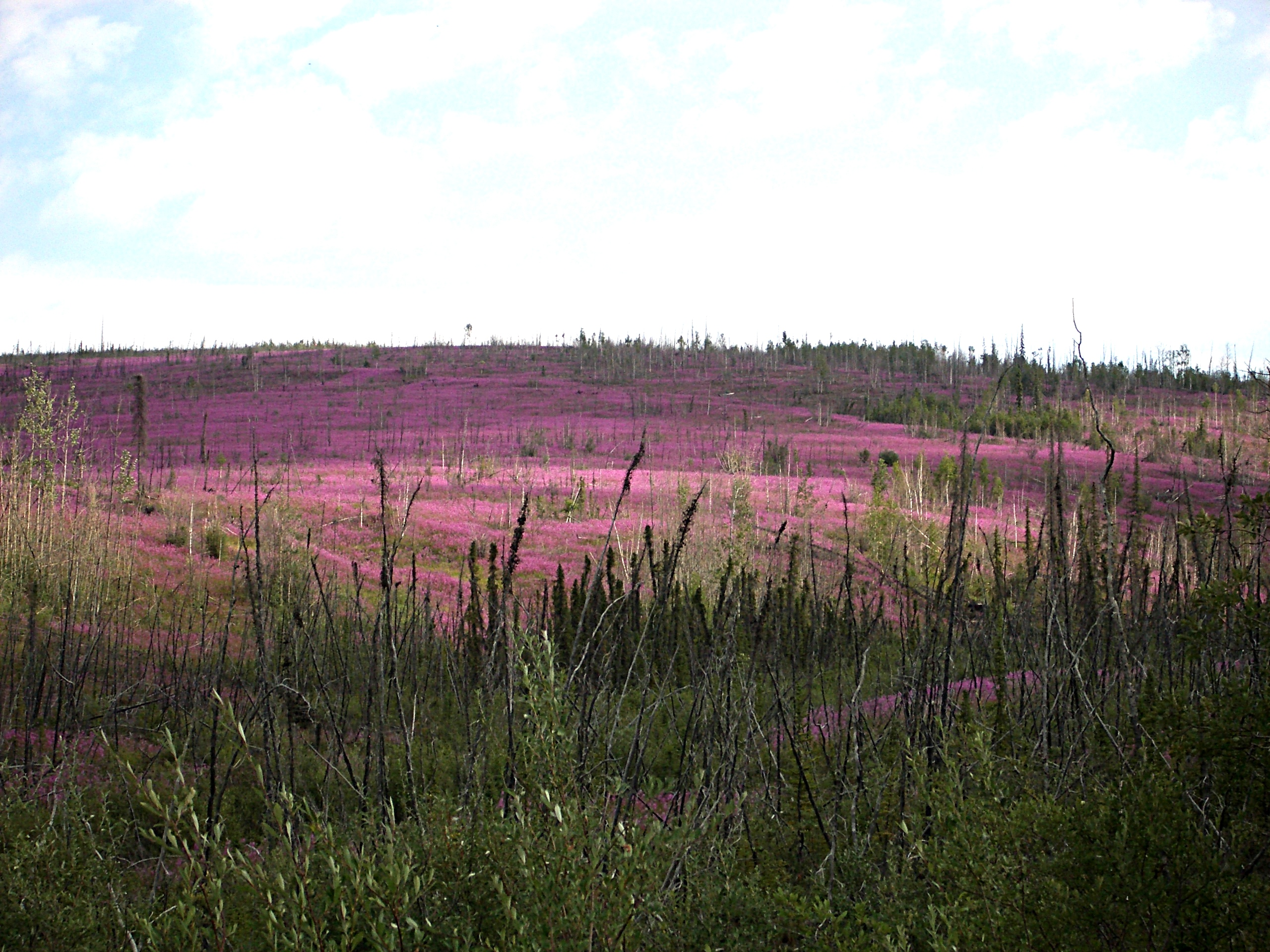 Fireweeds on the side of Taylor Highway (Alaska)